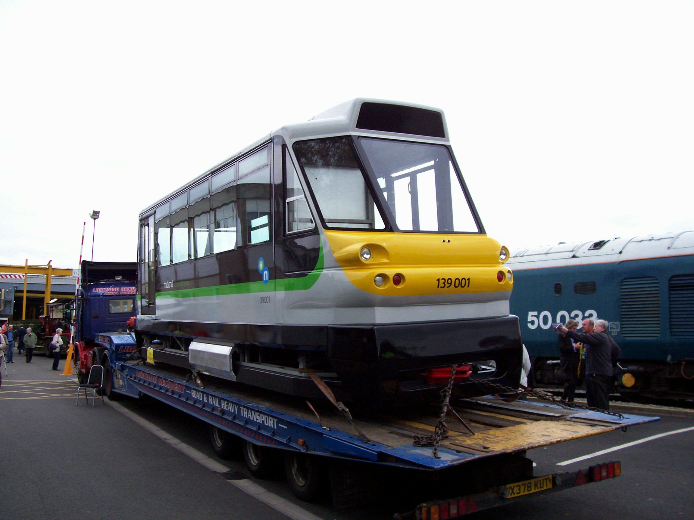 British Rail Class 139 number 139001 at Tyseley, 28th June 2008.